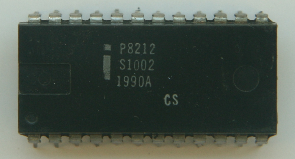 IC photo